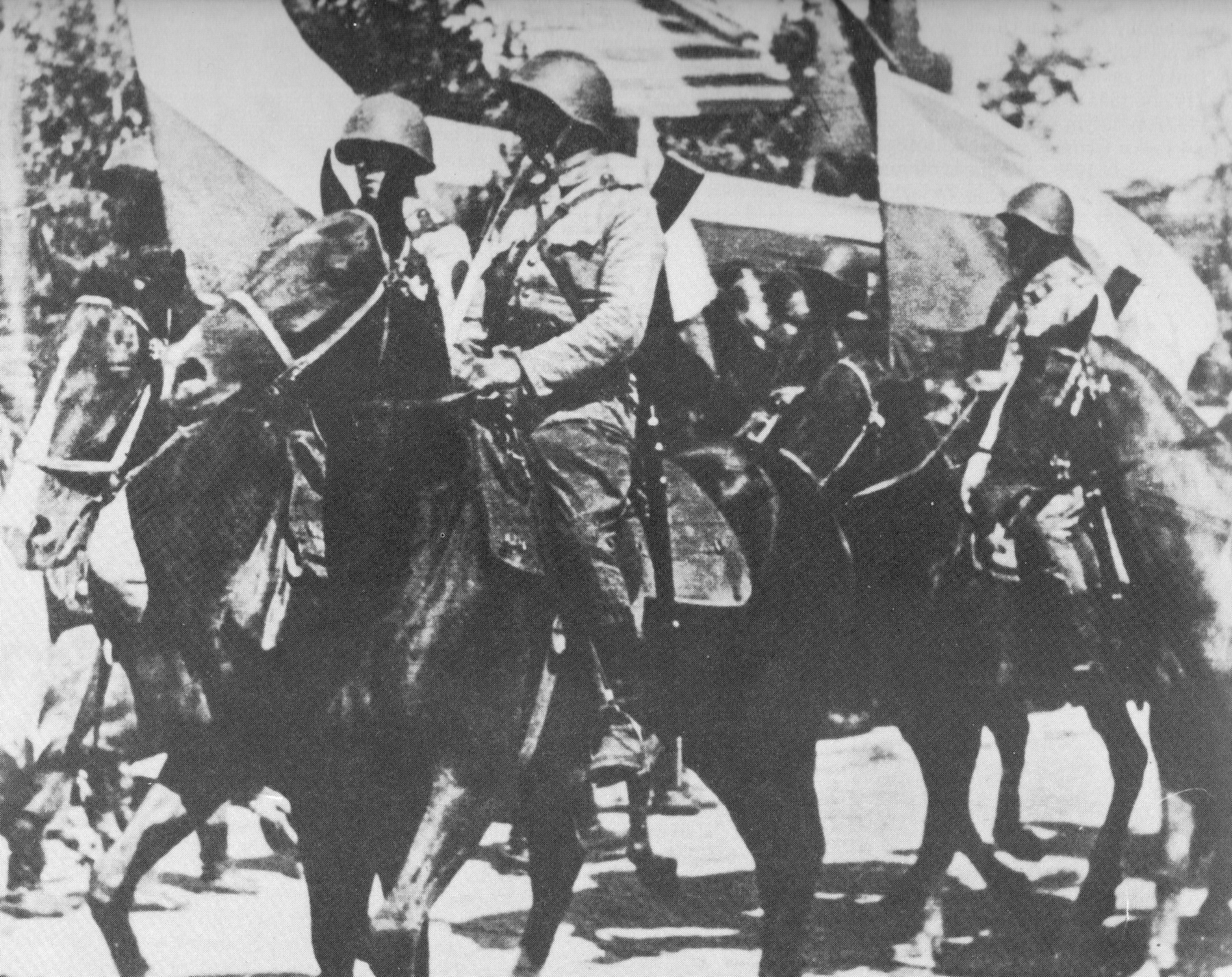 1st Independent Cavalry Brigade on parade. August 15 1944 in Lublin, Poland